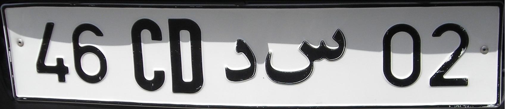 Tunisian license plates